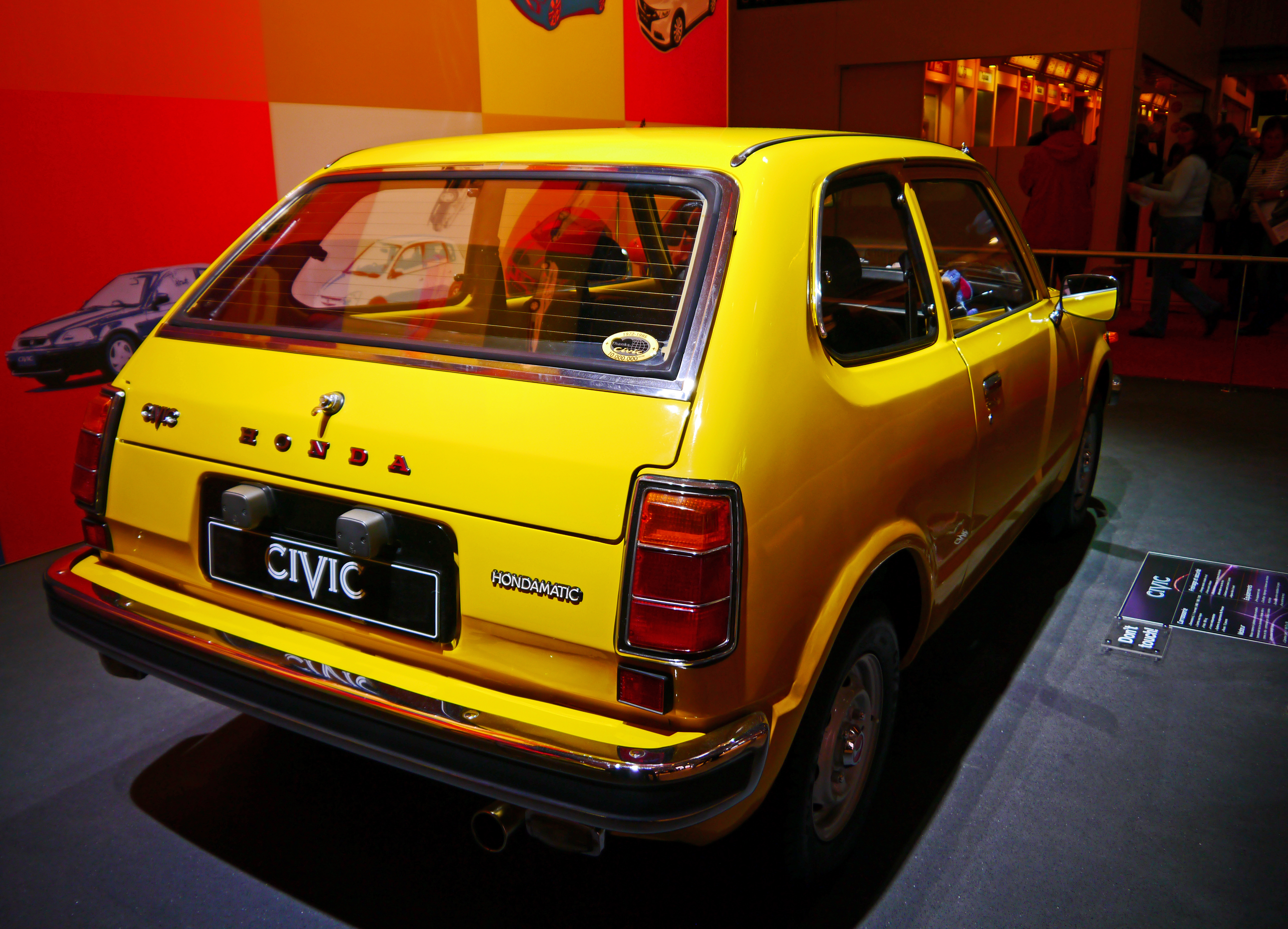 First generation Honda Civic Hondamatic.